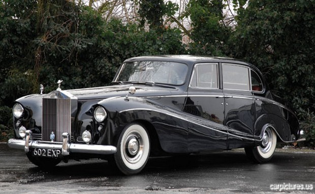 Rolls-Royce Silver Cloud lwb by Hooper 1958